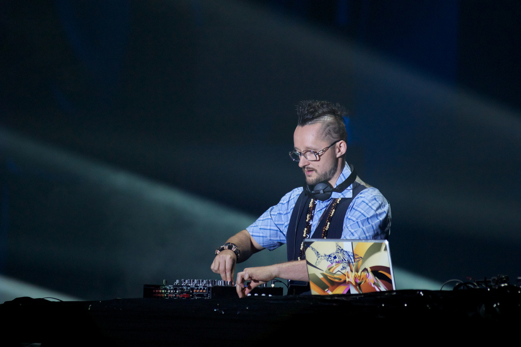 Sacrum Profanum 2012 - Polish Icons